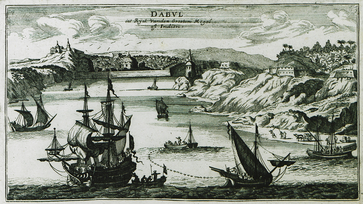 Jacob Peeters. Description des principales villes, havres et isles du golfe de Venise du coté oriental. Comme aussi des villes et forteresses de la Moree, et quelques places de la Grèce, Antwerp, Sur le marché des vieux Souliers, 1690.